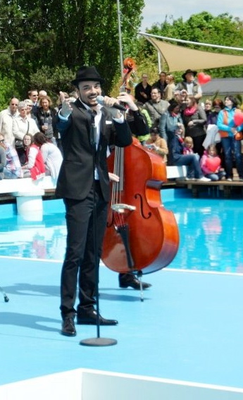 Giovanni Zarrella at ZDF-Fernsehgarten